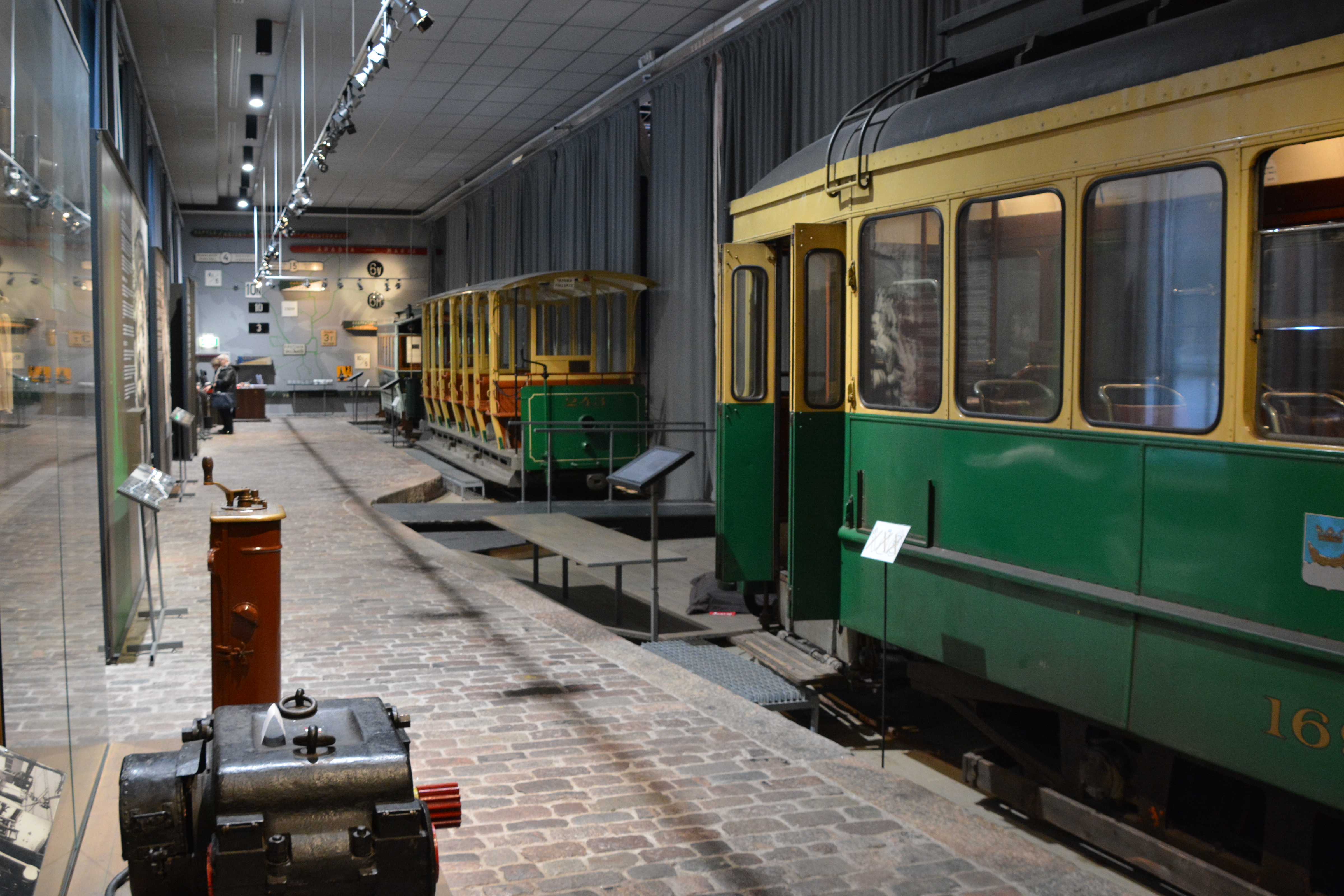 Helsinki tram museum interior. From right: Sisu, open waggon, horse driven tram.